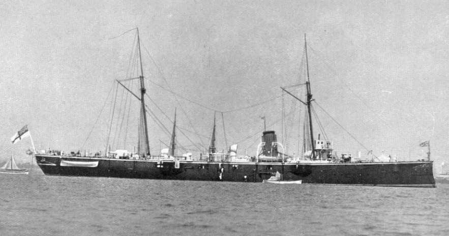 Photograph of British protected cruiser HMS Mersey.